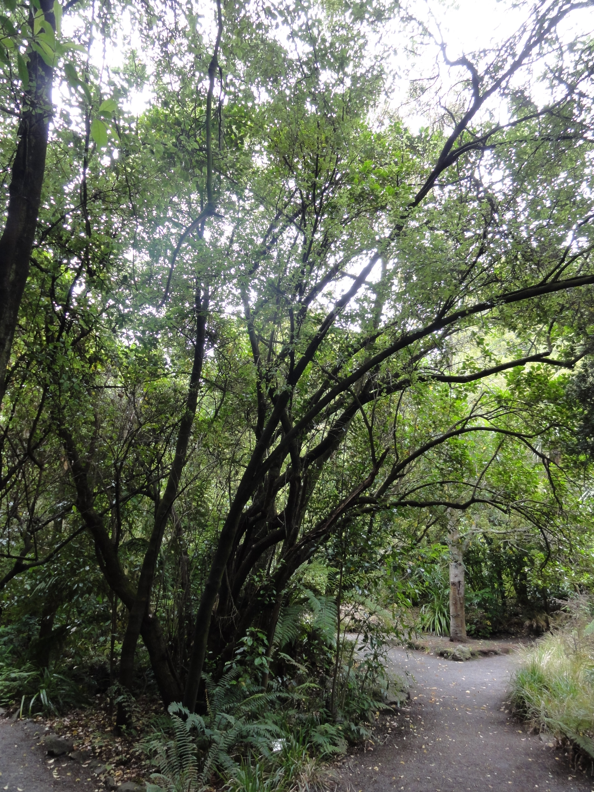 Griselinia littoralis, plant